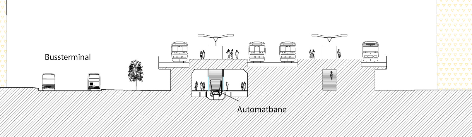 Crosssection for a proposed people mover station at Lysaker.